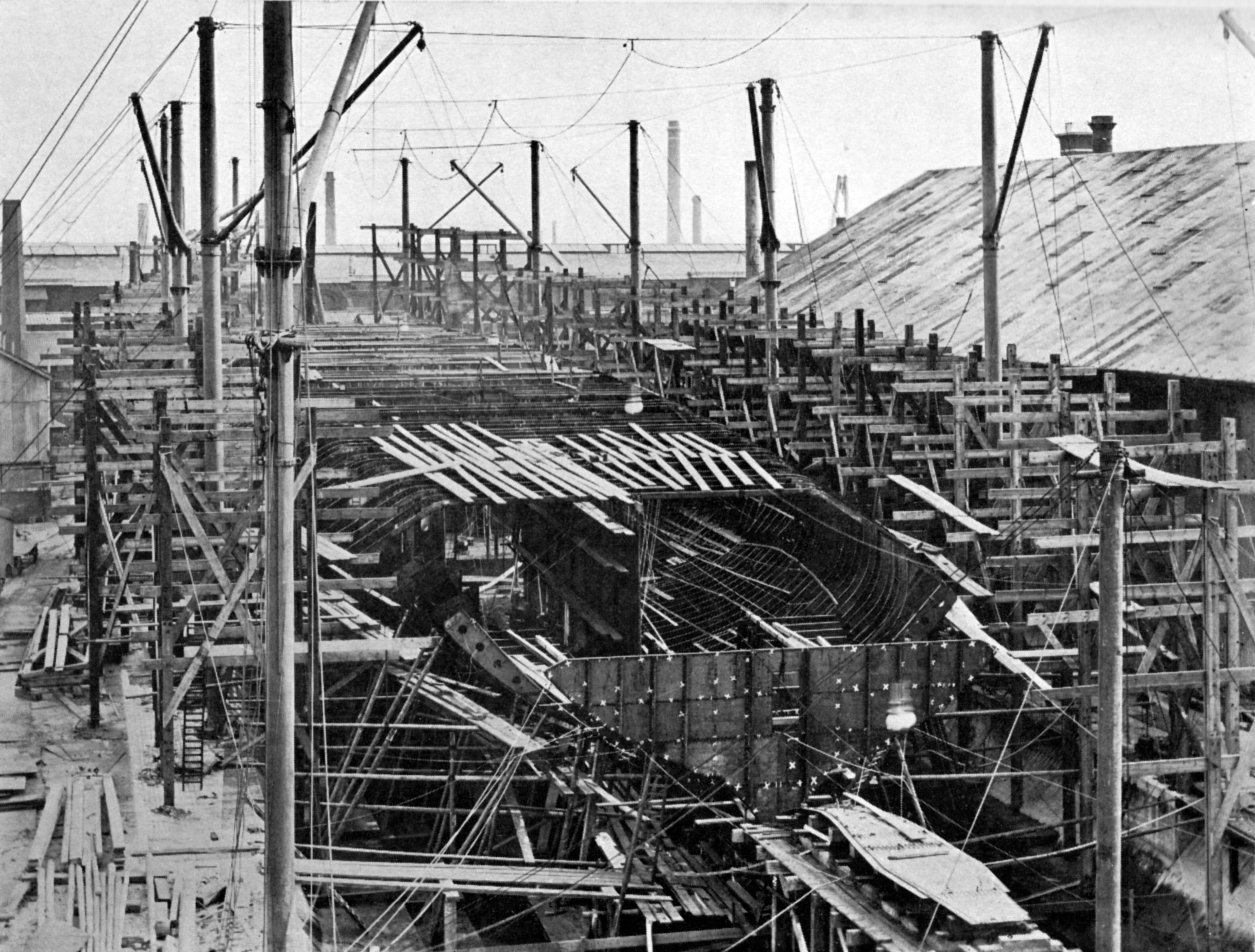 Royal Navy ship HMS Dreadnought (1906) five days after laying of keel. Frams to support armoured deck can be seen.